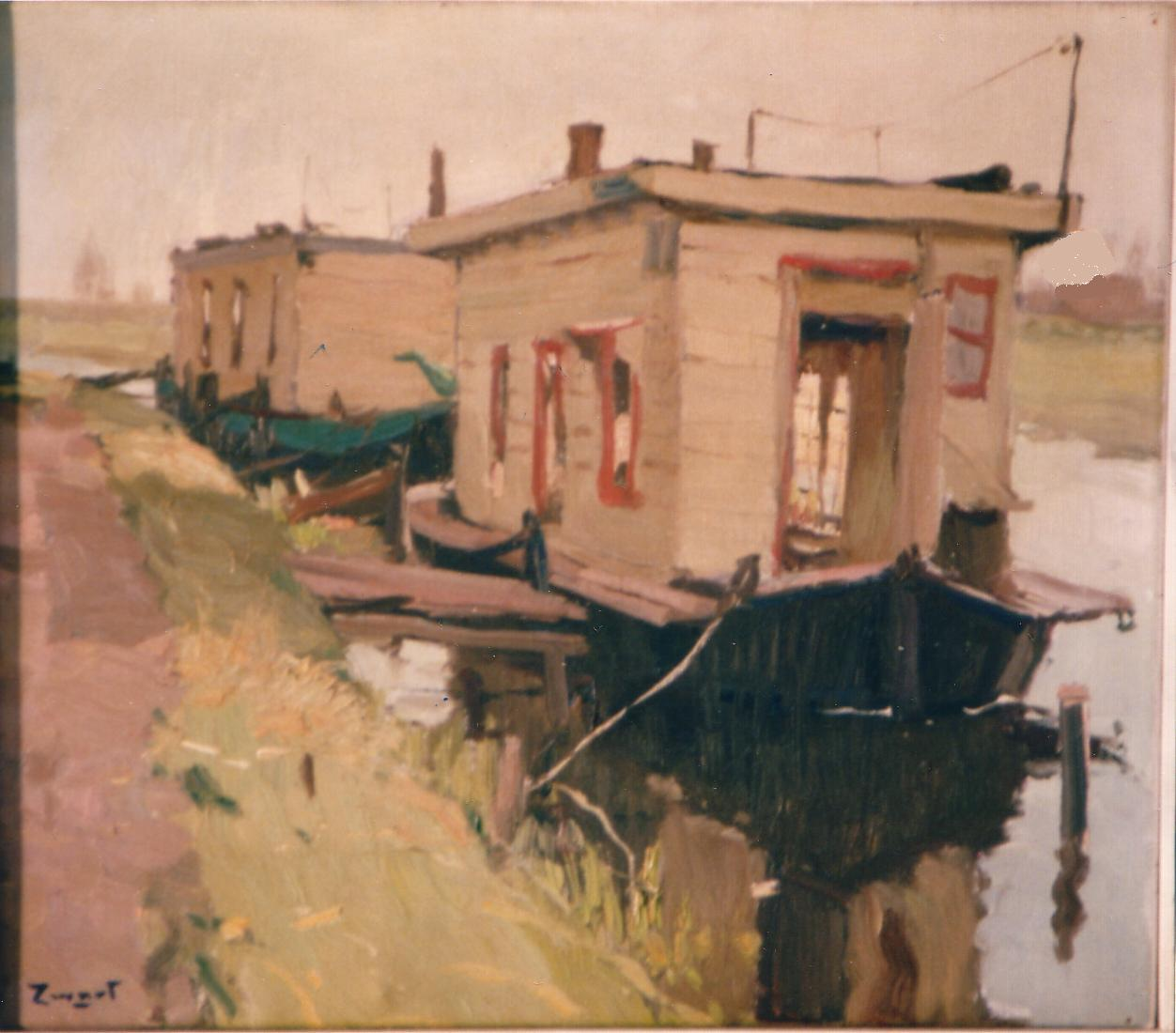 painter A.J. Zwart, painting 42x48, "Woonboten", 1954, where?